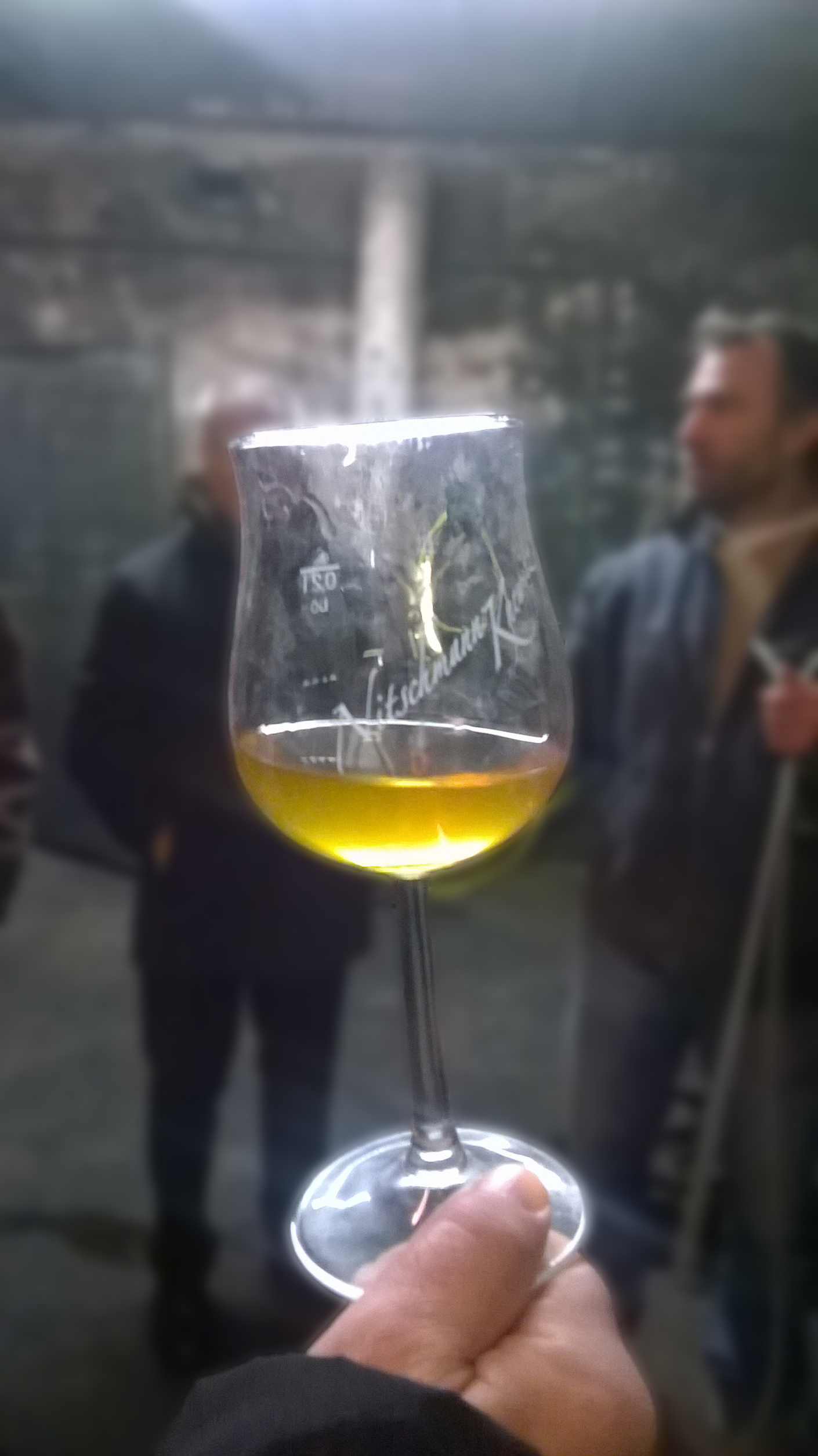 Orange wine, barrel tasting, Mommenheim, Germany.